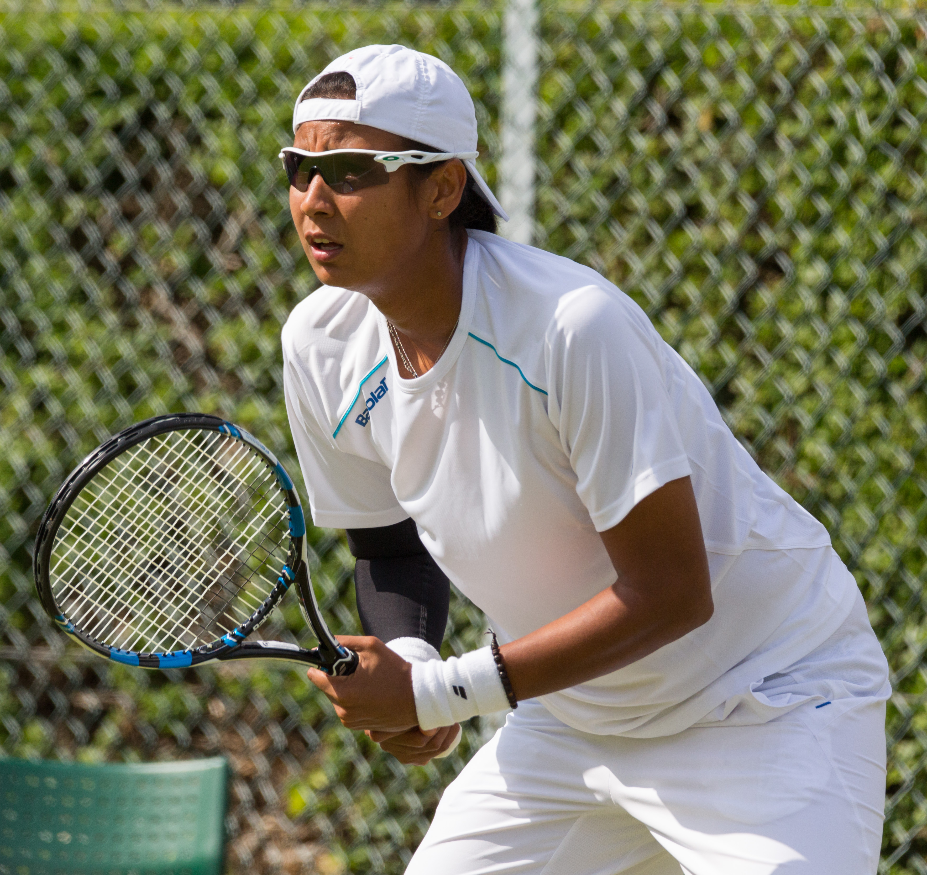 Akgul Amanmuradova competing in the first round of the 2015 Wimbledon Qualifying Tournament at the Bank of England Sports Grounds in Roehampton, England. The winners of three rounds of competition qualify for the main draw of Wimbledon the following week.